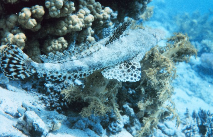 Plattkopf (family Platycephalidae)